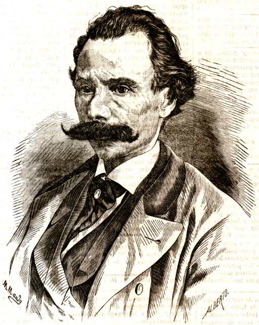 Camilo Castelo Branco (1825-1890)